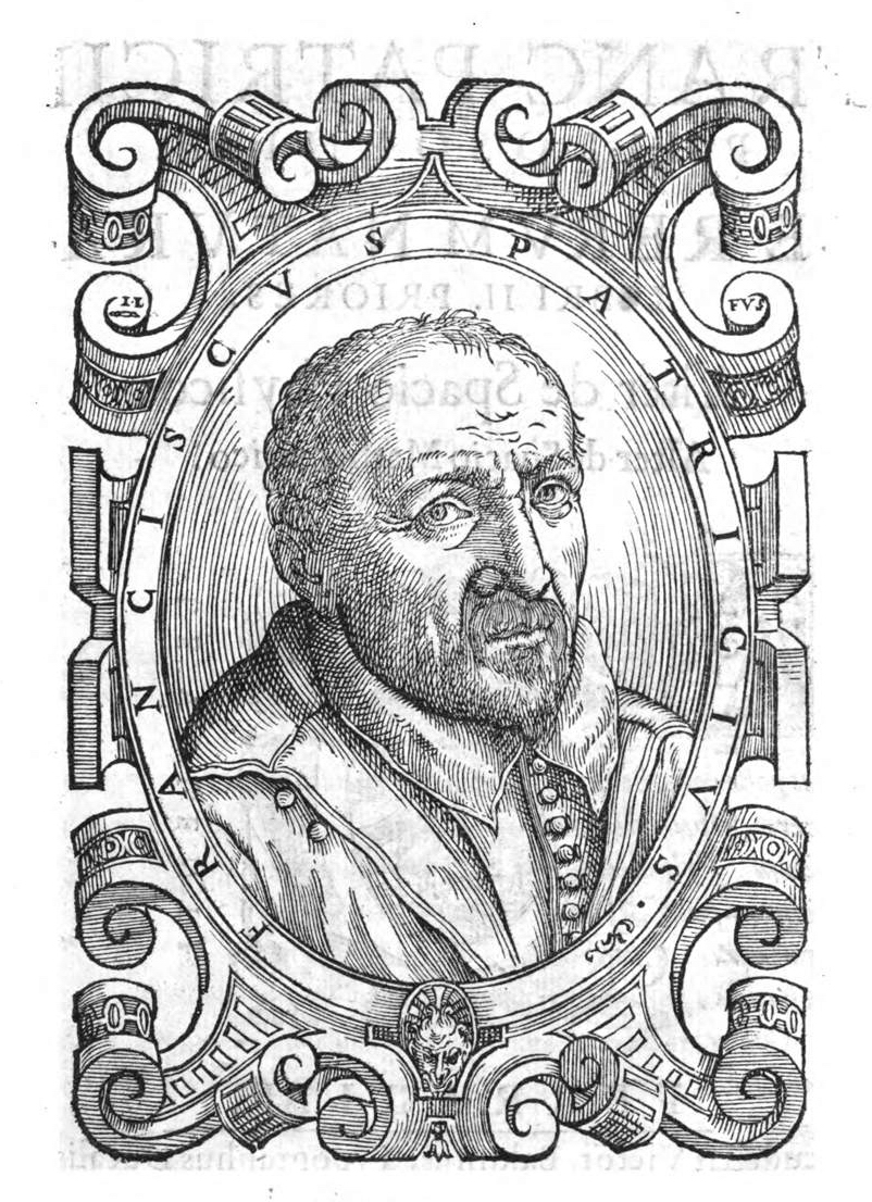 Portrait of Patrizi in his Philosophia de rerum natura. Edition: Ferrara 1587.